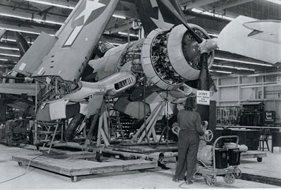 Final assembly of a Vought F4U-1 (probably a F4U-1A), about 1944.